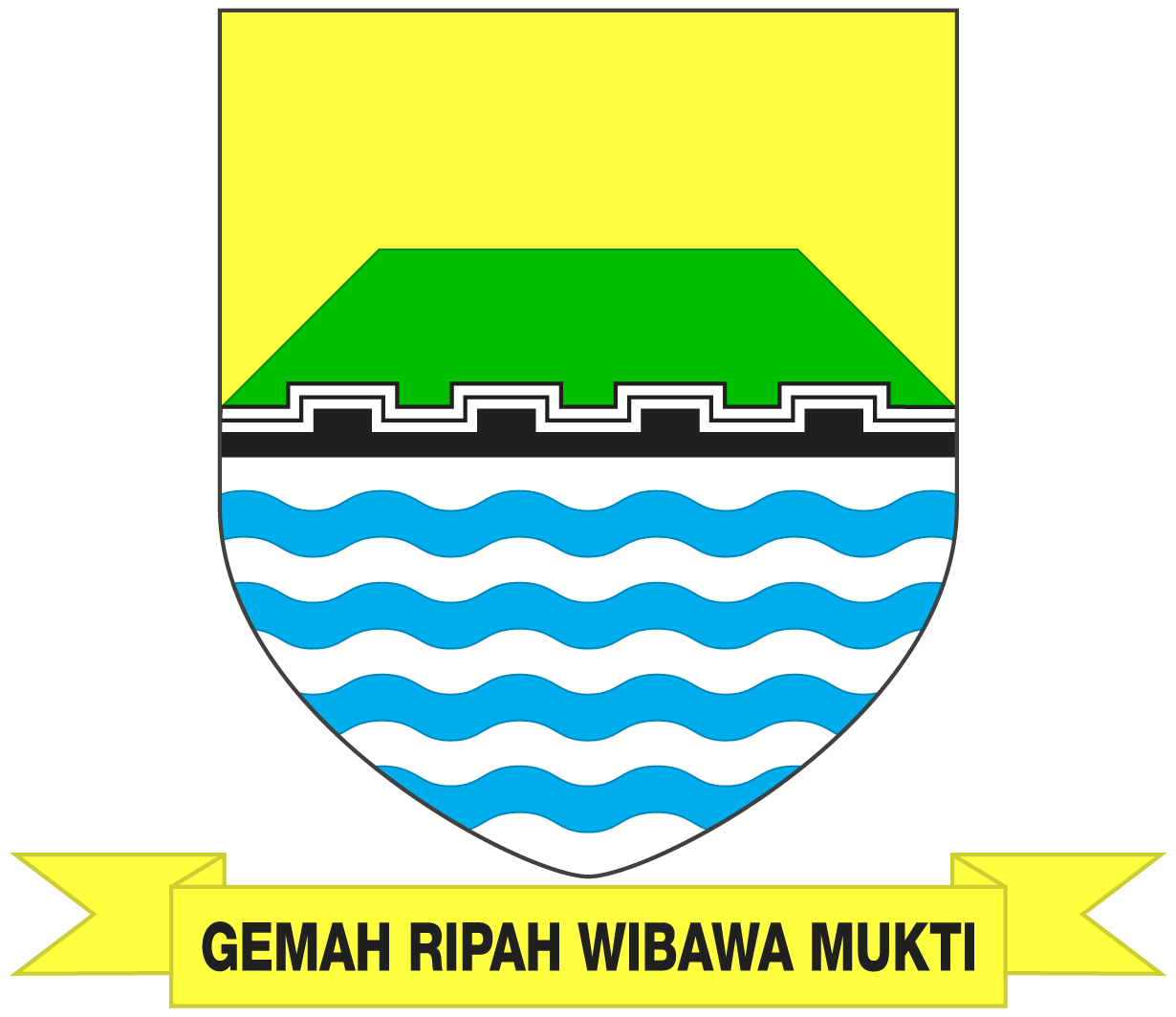 Coat of Arms of Indonesian city of Bandung.